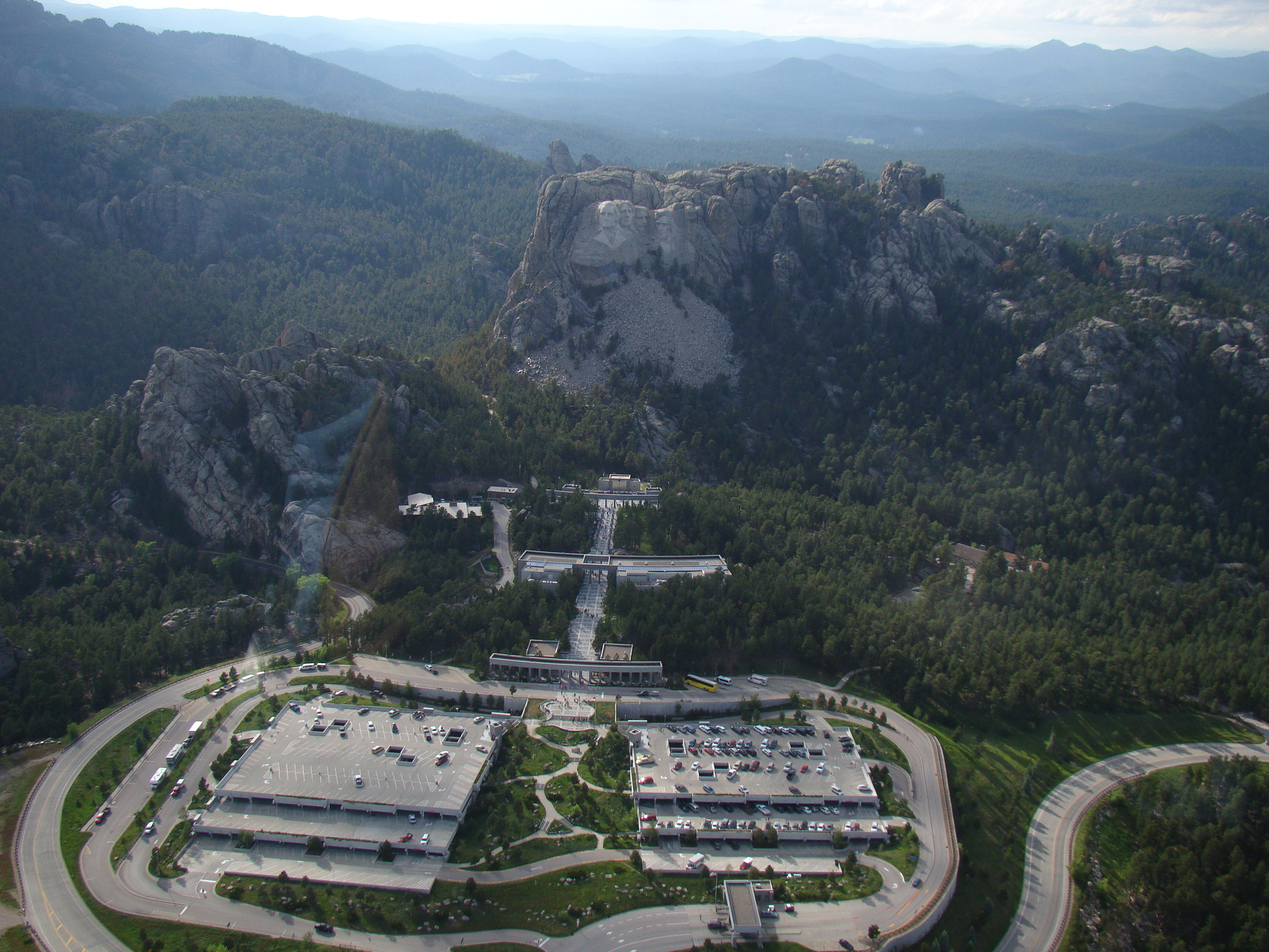 Aerial NW direction view of Mount Rushmore National from a helicopter. Link to Stereoscopic 3D view version which is arranged for cross eye viewing technique